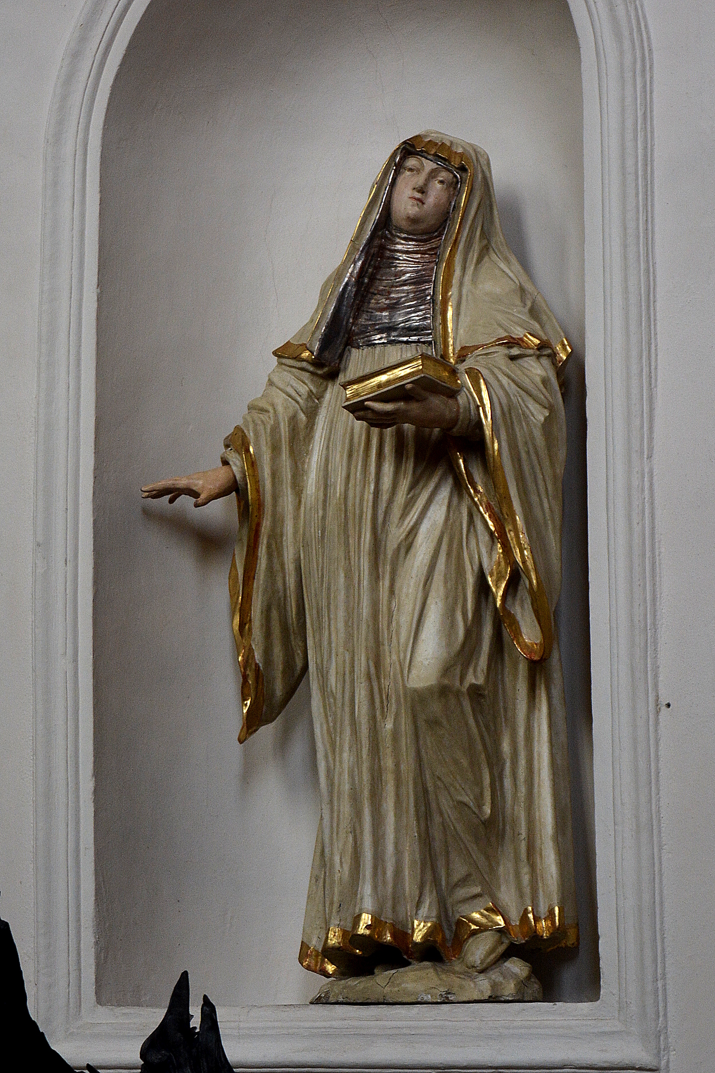 Schönau Abbey (Nassau)